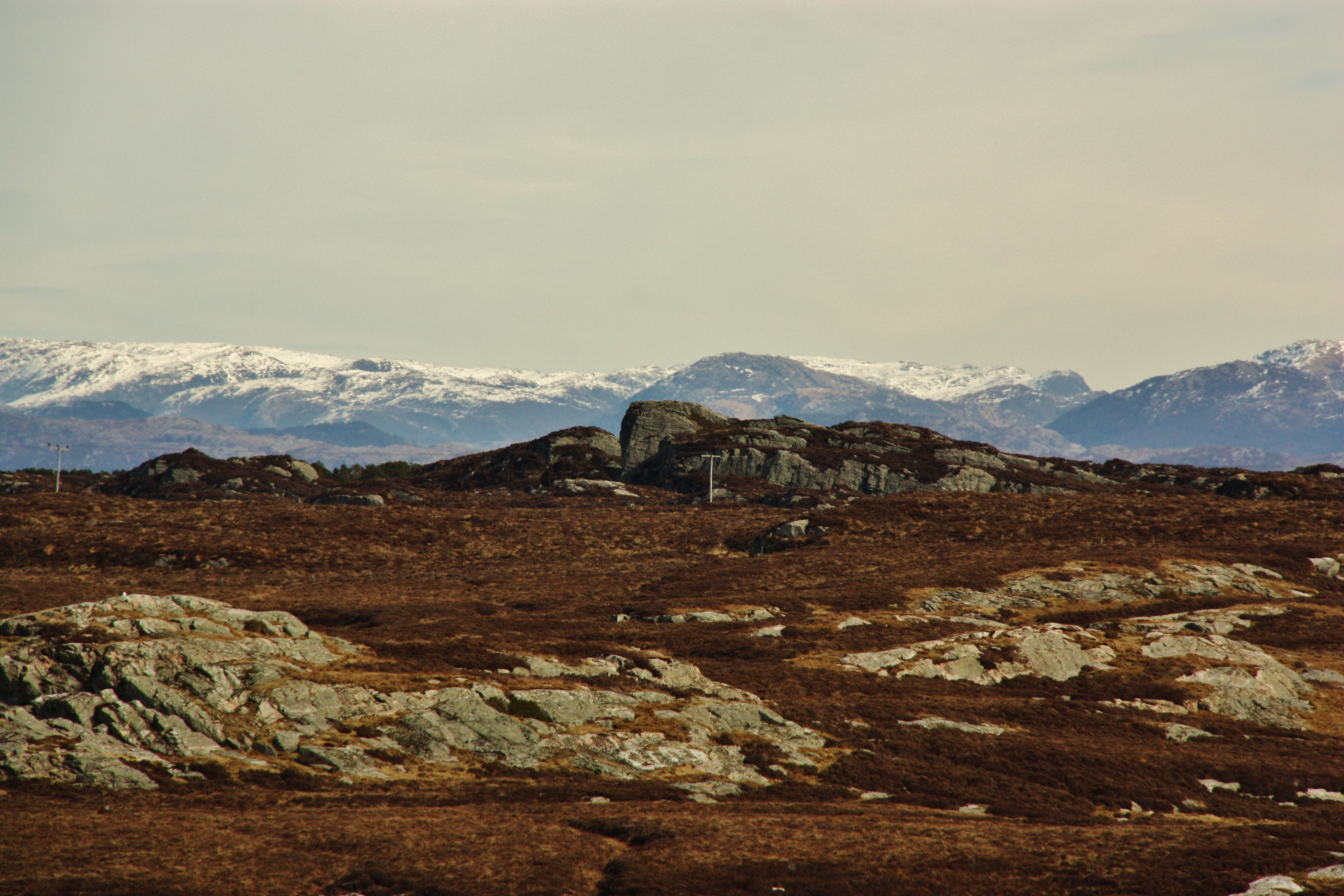 Fedjebjørnen, the highest point in Fedje, Norway (42 masl)